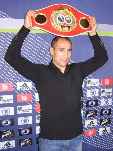 Box champion Arthur Abraham in Bamberg in October 2008 posing with championship belt